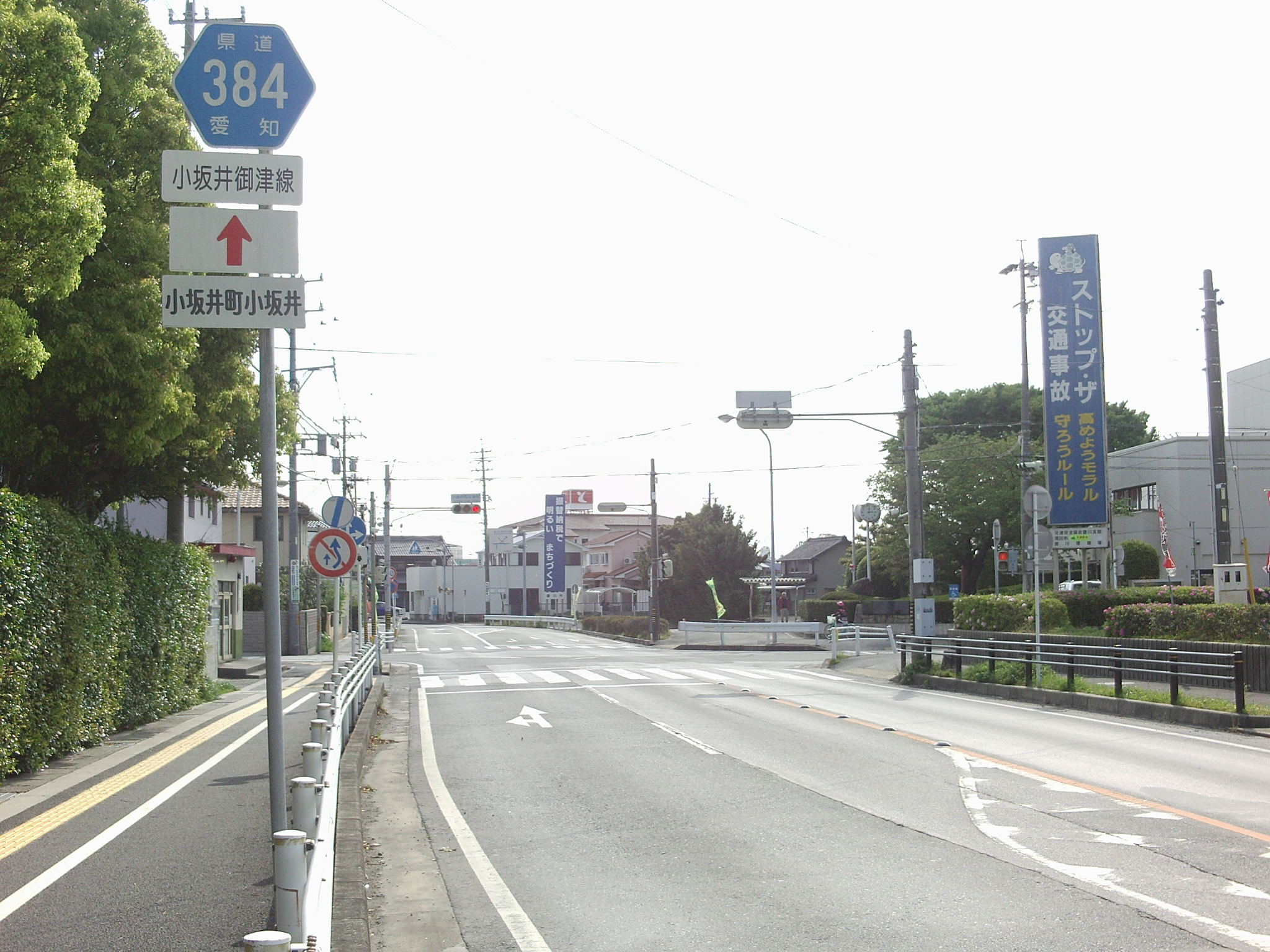 Aichi prefectural road No.384 in Kozakaicho, Toyokawa, Aichi.